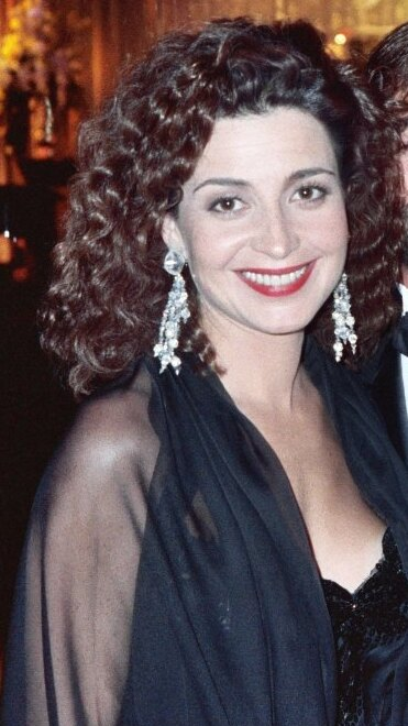 Annie Potts at the Governor's Ball following the 41st Annual Emmy Awards, 9/17/89 - Permission granted to copy, publish, broadcast or post but please credit "photo by Alan Light" if you can